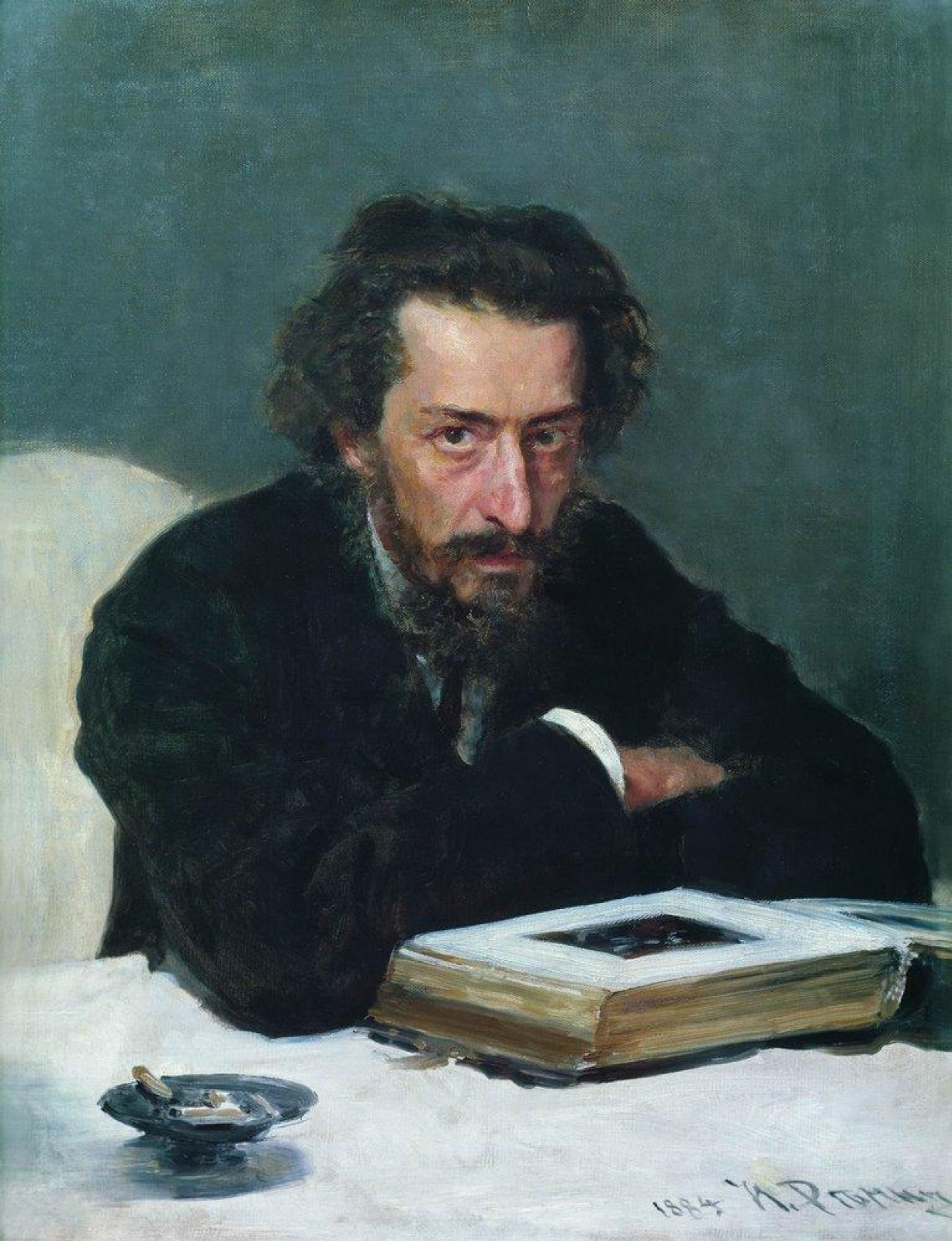 Portrait of composer and journalist Pavel Ivanovich Blaramberg